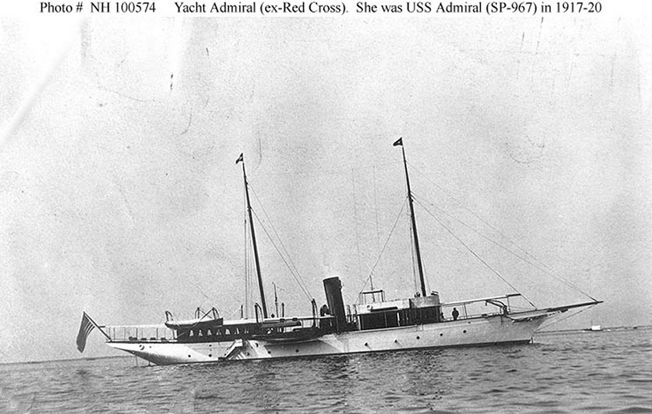 Photographed prior to World War I. US Navy Photo NH 100574